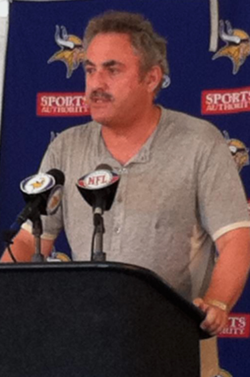 Minnesota Vikings owner Zygi Wilf